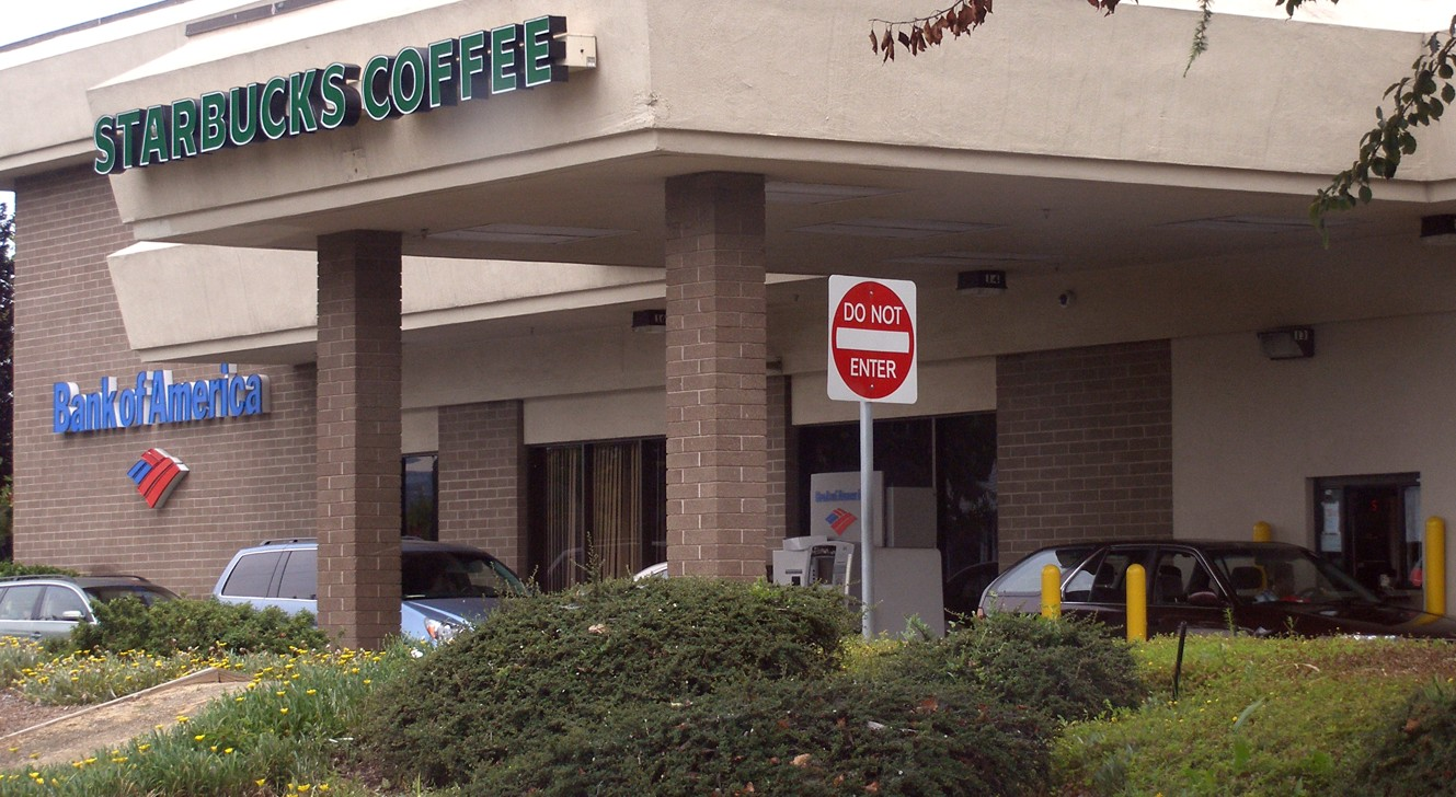 This building in San Jose, California houses both a Bank of America branch office and a Starbucks Coffee store. The two businesses share a drive-through with two lanes: one for the Bank of America ATM, and one for the Starbucks drive-through window. Source Photographed on June 15, en:2006 by user Coolcaesar Category:Images of California